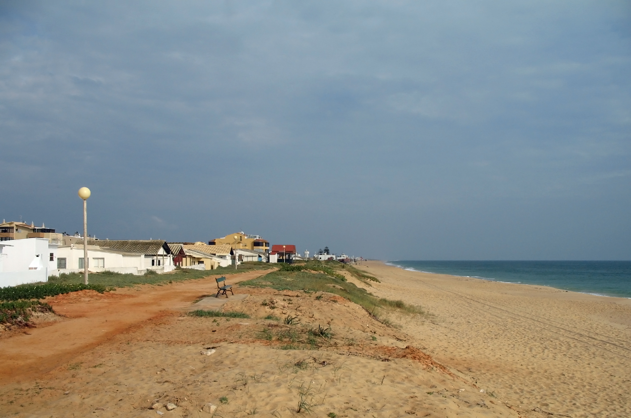 Faro Beach (Praia de Faro), Portugal